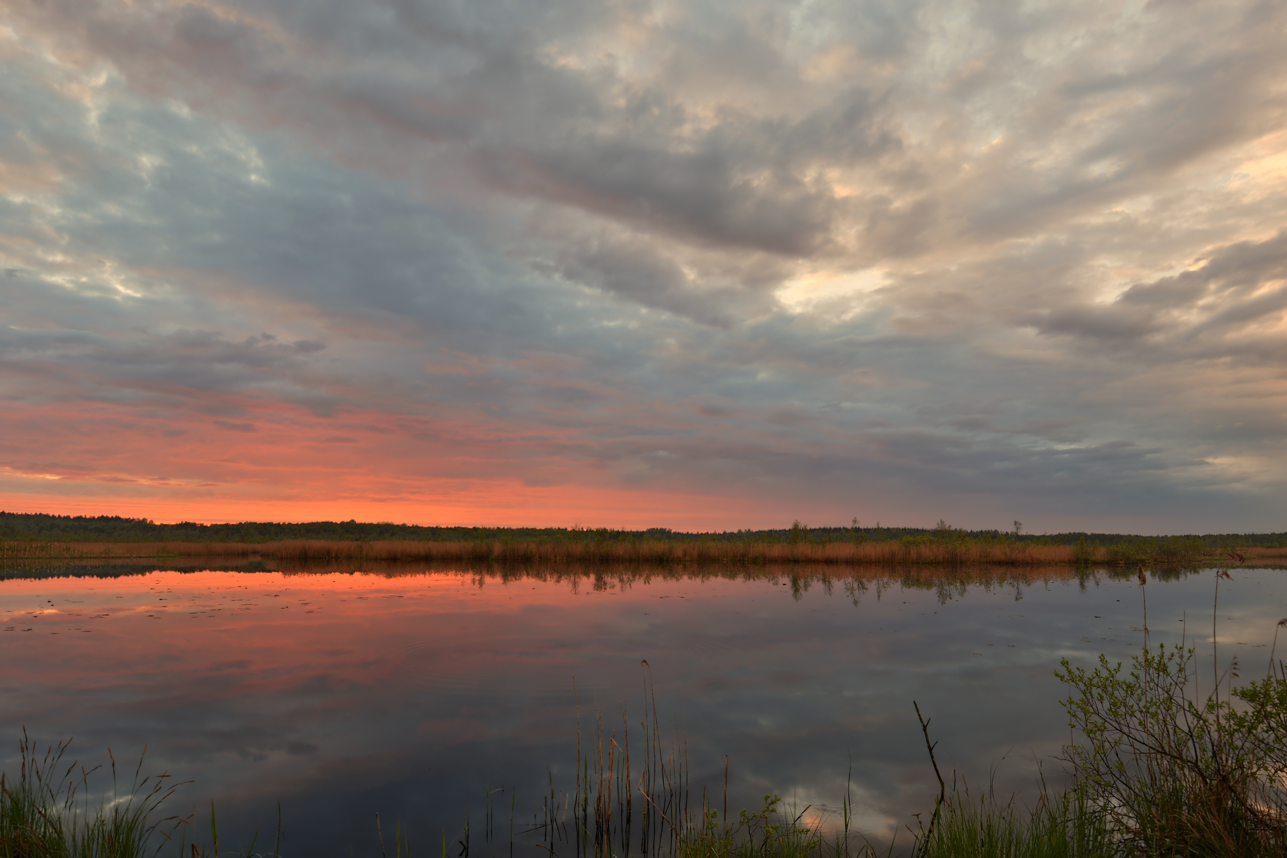 Lake Tõlinõmme, Vääna Landscape reserve. In-Camera HDR.